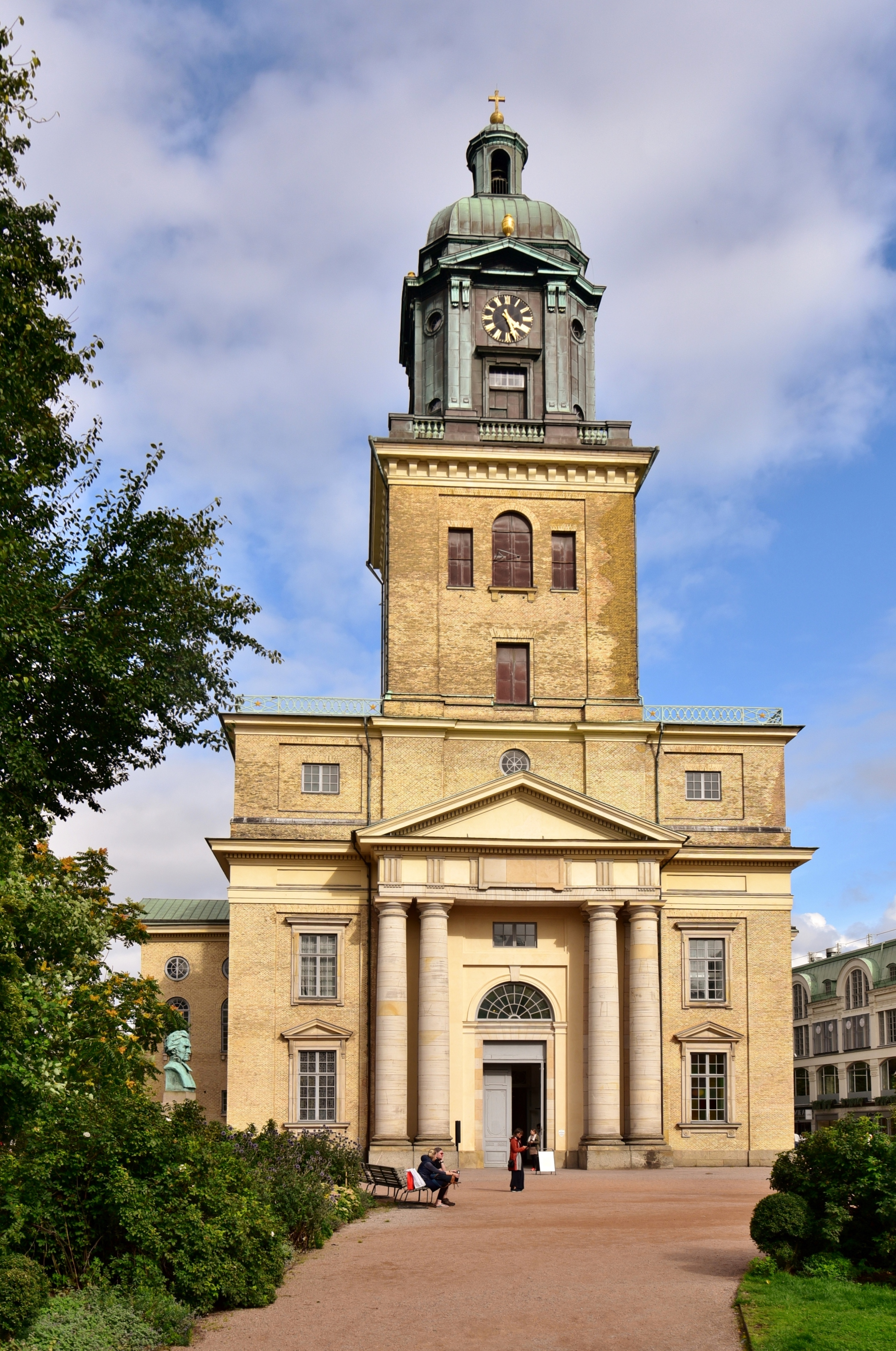 View of Gothenburg Cathedral, Gothenburg, Sweden